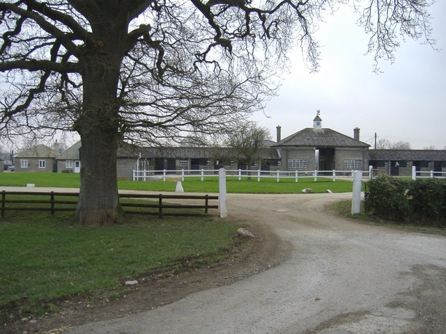 Kennels, Meysey Hampton The Vale of White Horse hunt, keep their dogs(and some horses), here.